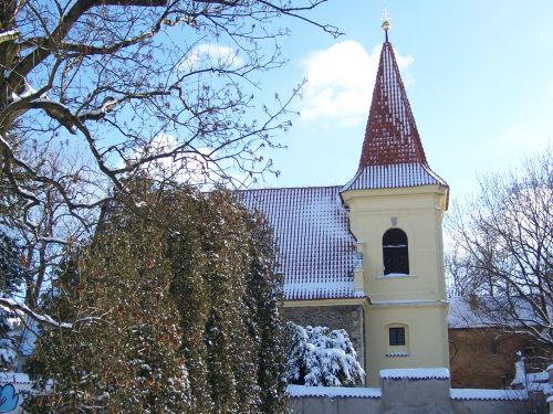 Church of St James the Great in Prague-Petrovice